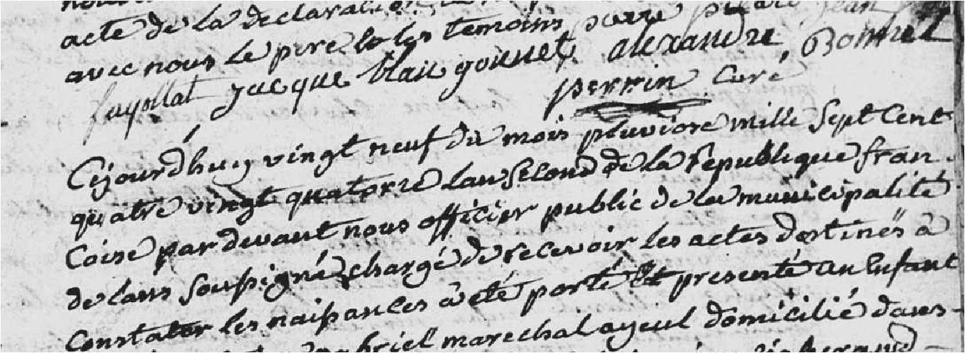 Certificate of birth cropped